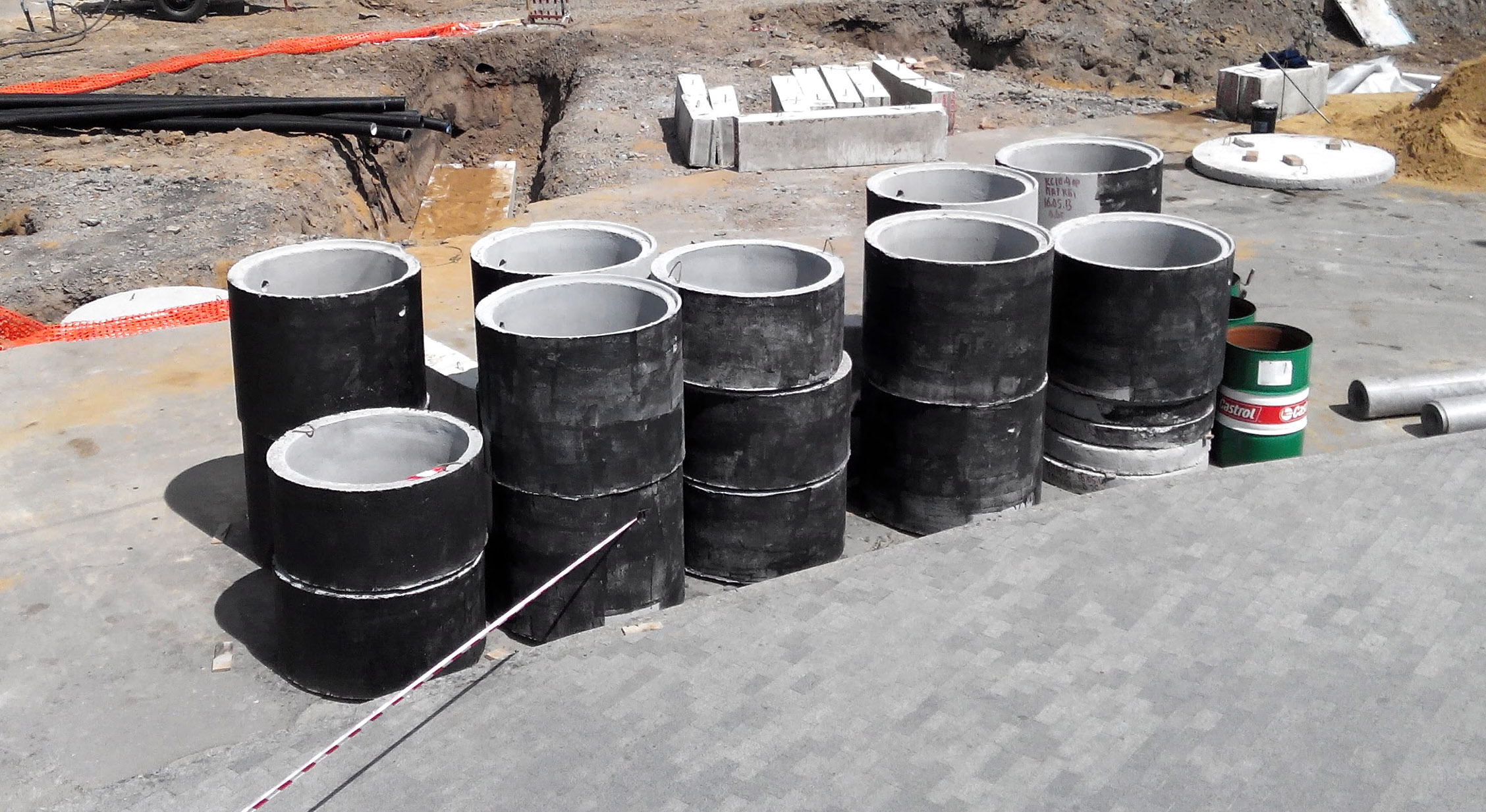 Different concrete well rings with hydrophobe covering